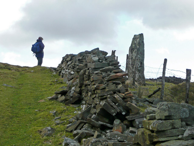 Geographer and Maen Llwyd menhir. A standing stone of almost human proportions half-way up the east side of the Grwyne Fechan valley.